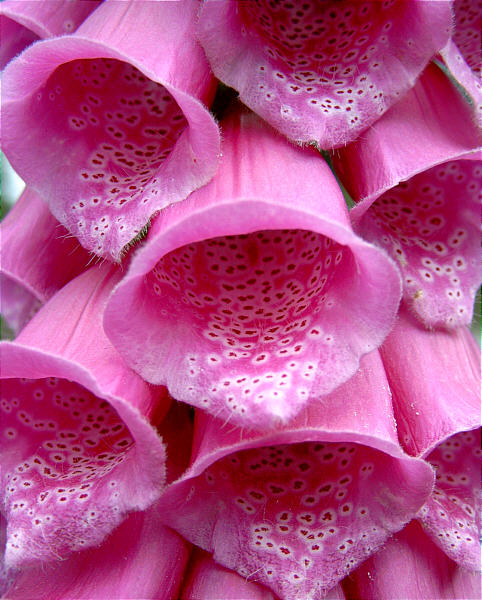 Roter Fingerhut (Digitalis purpurea)